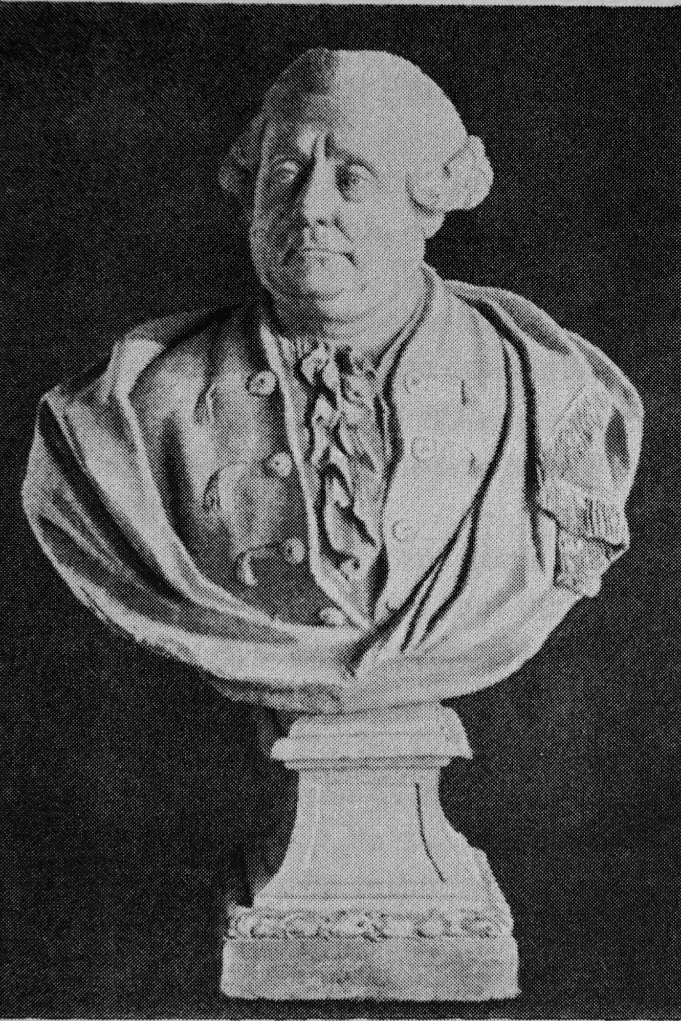 Bust of Claude Godard d'Aucour (1716 – 1795) French libertine writer.